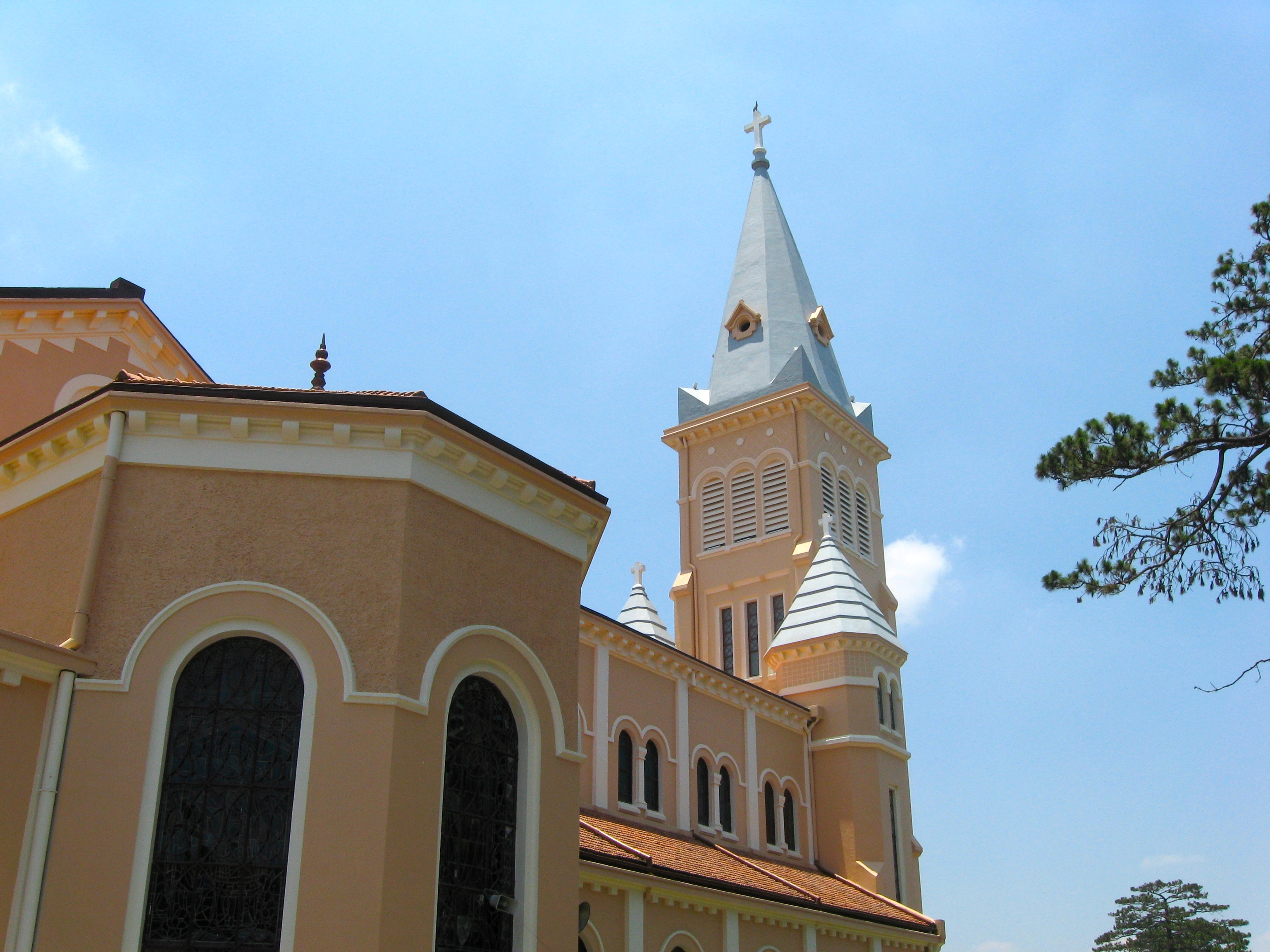 Cathedral of Da Lat